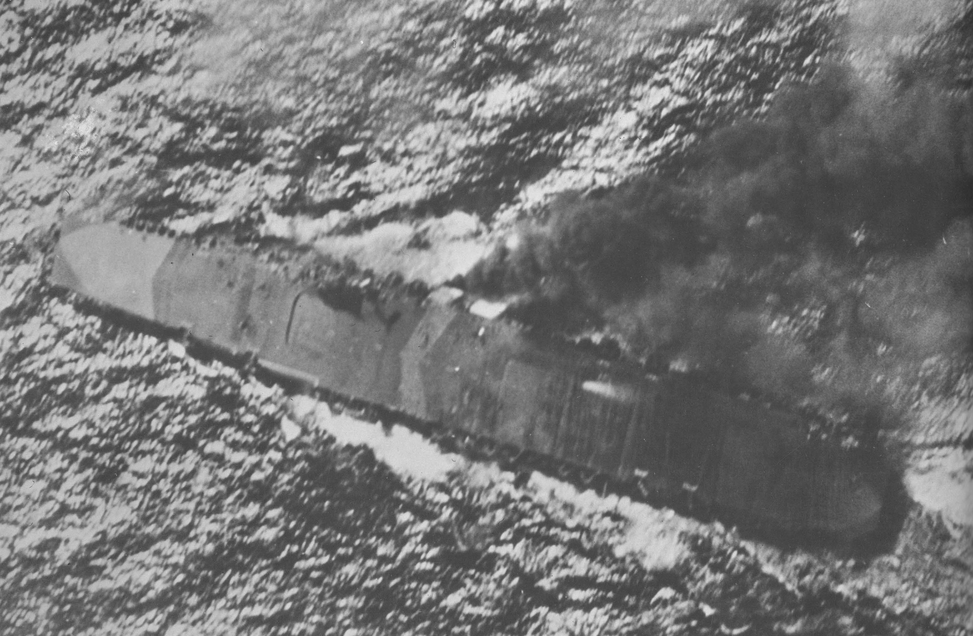 Zuikaku under air attack during the Battle off Cape Engaño.